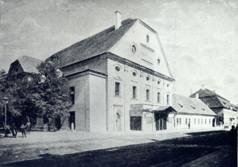 The old Hungarian Theatre from Cluj-Napoca, Romania (demolished end of 19 century)